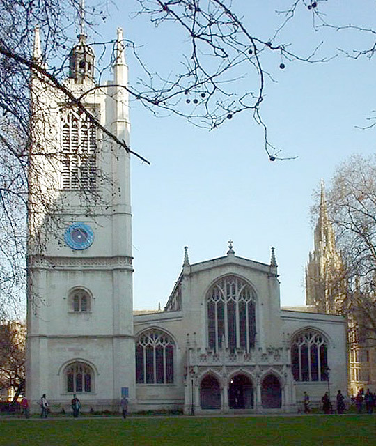 St. Margaret's Church in Westminster, next to Westminster Abbey.